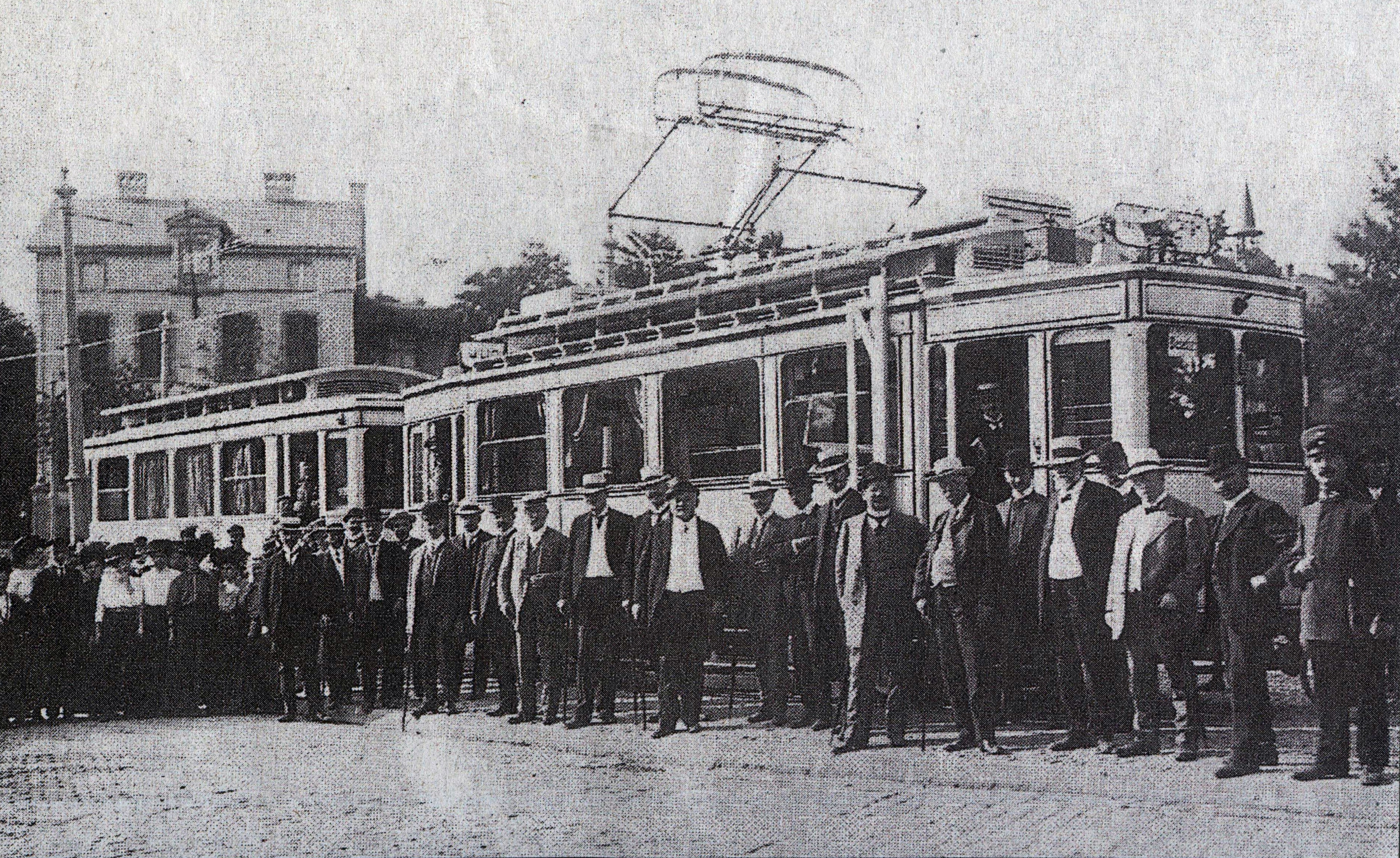 Germany, Godesberg (Bonn): Inaugural run of the electric tram Bonn - Godesberg - Mehlem on 24 July 1911. The guests of honor are at the bus stop Rheinallee, in the middle of them the Mayor of Bad Godesberg, Anton Dengler.